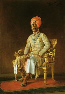 Pratap Singh of Idar (1845-1922)